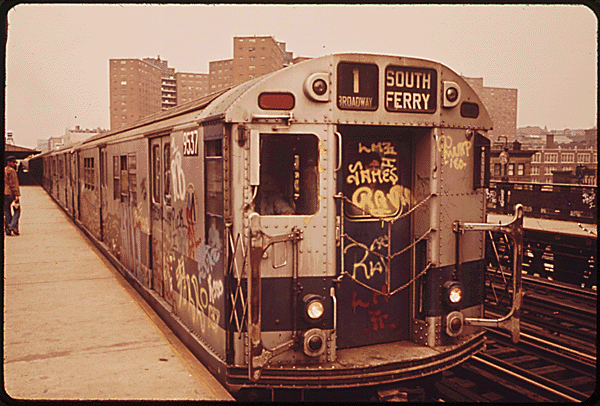 An R36 type New York City Subway car leading a 1 train, September 1973. The blue/silver paint scheme represented the MTA's new corporate identity, which was introduced in 1968 and finally scrapped in 1981 due to its high cost for repainting all the cars. Moreover the car's actual paint scheme was covered by graffiti and dirt over and over.The location of this photography is unknown.